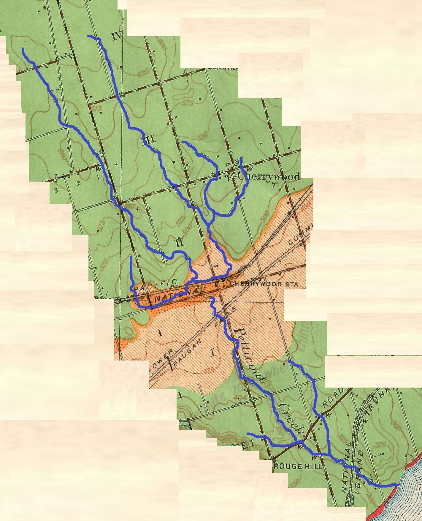 Petticoat Creek is a creek in Pickering, Ontario, with its mouth close to that of the Rouge River.